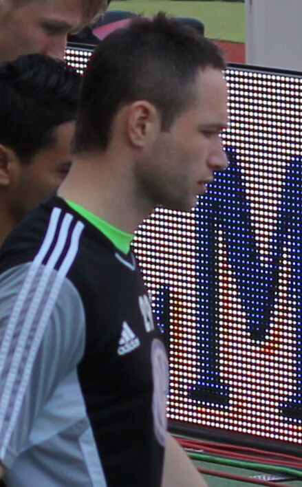 Jan Polák, Czech football player for German side VfL Wolfsburg, 2011/12 season